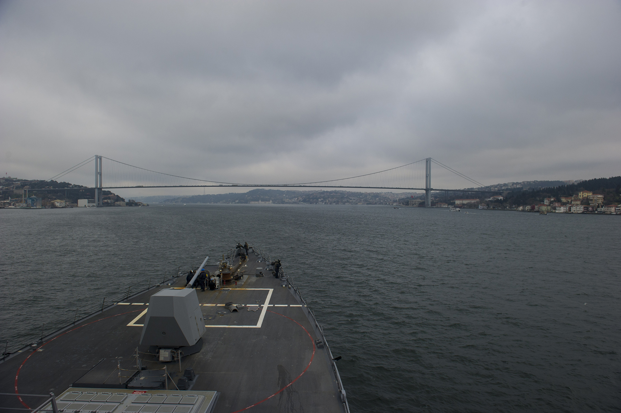 BOSPHORUS STRAIT (March 7, 2014) The Arleigh Burke-class guided-missile destroyer USS Truxtun (DDG 103) transits the Bosphorus Strait. Truxtun is deployed as part of the George H.W. Bush Carrier Strike Group on a scheduled deployment supporting maritime security operations and theater security cooperation efforts in the U.S. 6th Fleet area of operations. (U.S. Navy photo by Mass Communication Specialist 3rd class Scott Barnes/Released)140307-N-EI510-169